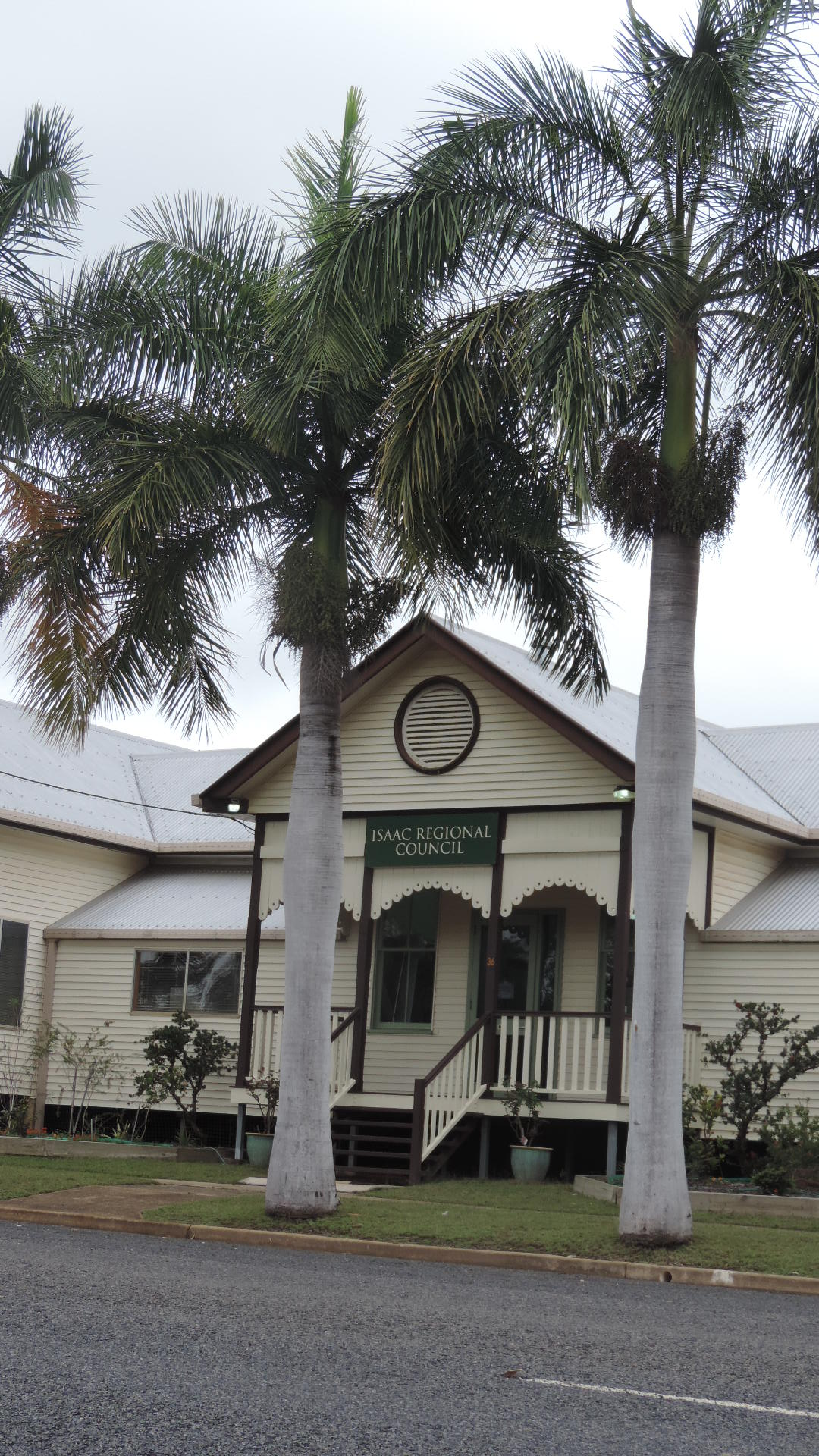 Closeup, former Broadsound Shire Council Chambers, now offices of the Isaac Regional Council, St Lawrence, 2016